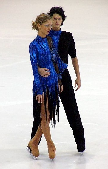 Nóra Hoffmann and Attila Elek at the 2004 European Figure Skating Championships